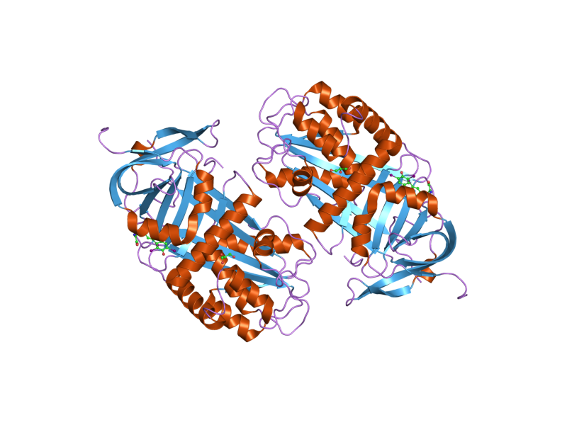 Cartoon representation of the molecular structure of protein registered with 2ceo code.